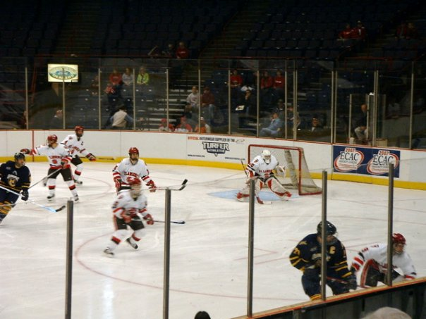 St Lawrence vs Quinnipiac. ECACHL Men's Ice Hockey Tournament semifinal.